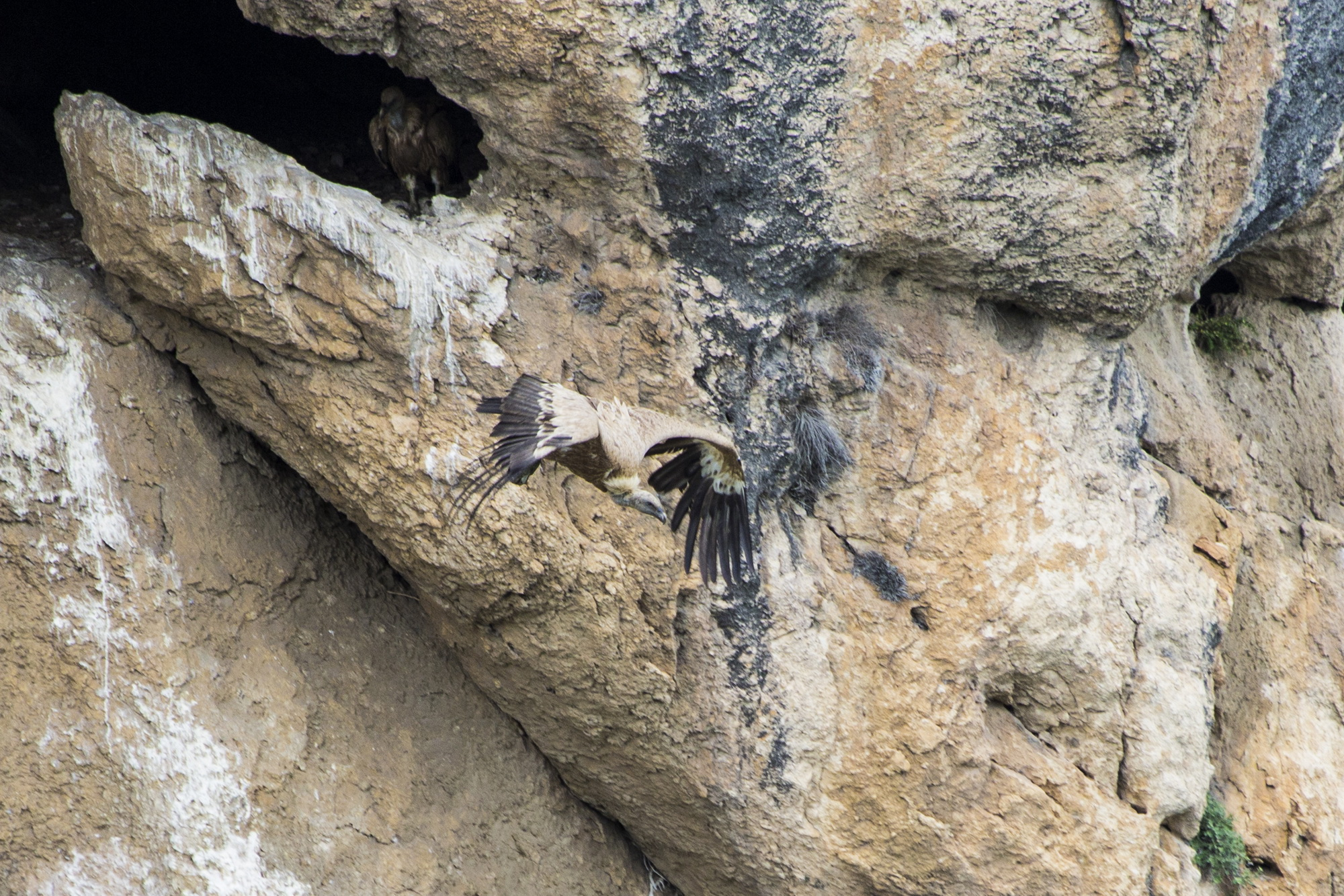 Artsivi (Eagle) Gorge Natural Monument Attraction: Artsivi (Eagle) Gorge Natural Monument represents an unique complex consisting of two sites. The first one is a limestone rock canyon, while the other is a adjacent forested area, where Khornabuji fortress was built (V c). The canyon with a picturesque landscape is a home to several birds of prey (eagle, vulture etc.). Looking at the hanging cliffs from the rocky slopes of the gorge, it is possible to observe nests of eagles and other rare/extinct plants, which cannot be seen anywhere else in Georgia. The length is of the pedestrian route is 1 km, which can be covered in 1 hour. The length of the pedestrian route to Khornabuji fortress is 0.5 km and it can be covered in 30